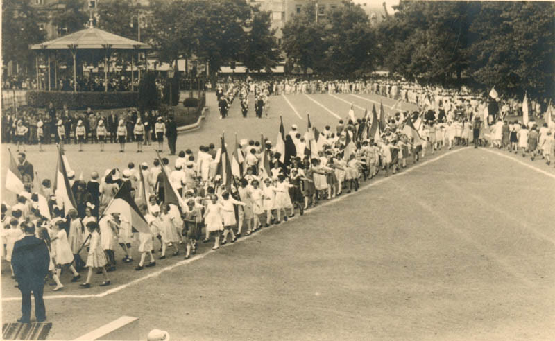 View of children's parade in Vrijthof during the 1937 Pilgrimage of the Relics (Heiligdomsvaart) in Maastricht, Netherlands. This event was part of a 10 or 15-day religious festival that is celebrated in Maastricht every seven years and dates back to the Middle Ages. The school children bring tribute with flowers to Saint Servatius and Our Lady, Star of the Sea. Photo: Municipal Archives Maastricht (GAM 31404), part of RHCL collections.